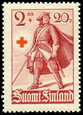 Postage stamp depicting a Carolean soldier (Finnish:karoliini)